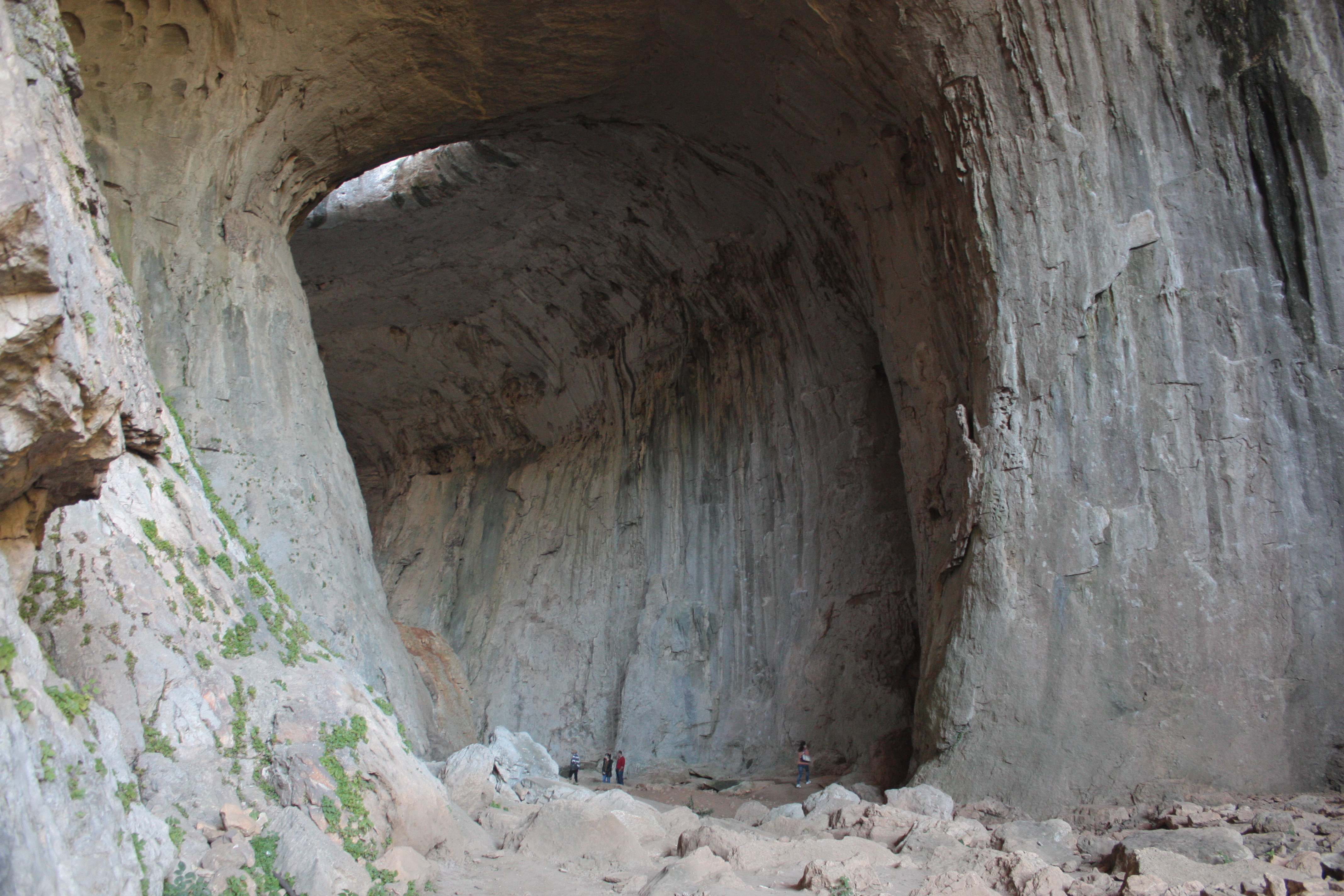 One of the entrances of Prohodna (Passage) cave near Karlukovo, Bulgaria